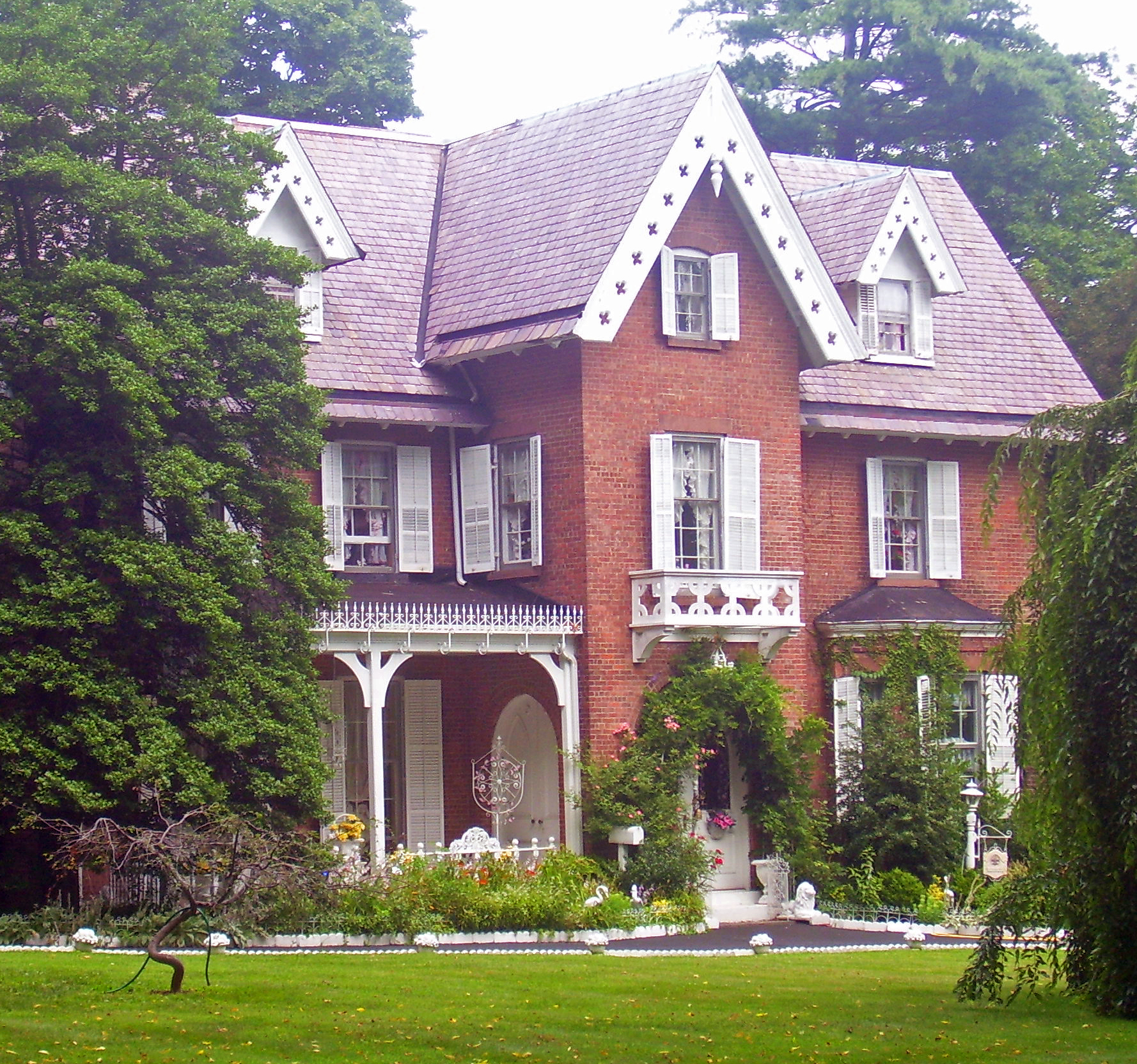 Maple Lawn, house designed by Frederick Clarke Withers in Balmville, NY, USA